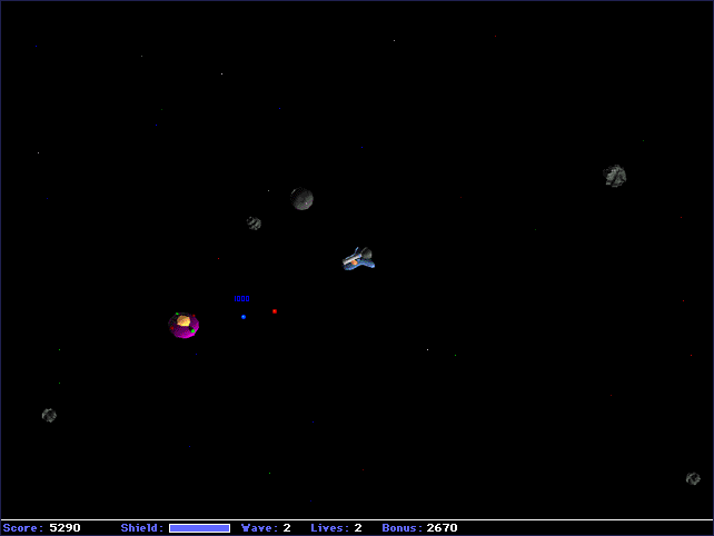 Screenshot of Maelstrom by Ambrosia Software for 68k Macintosh computers.